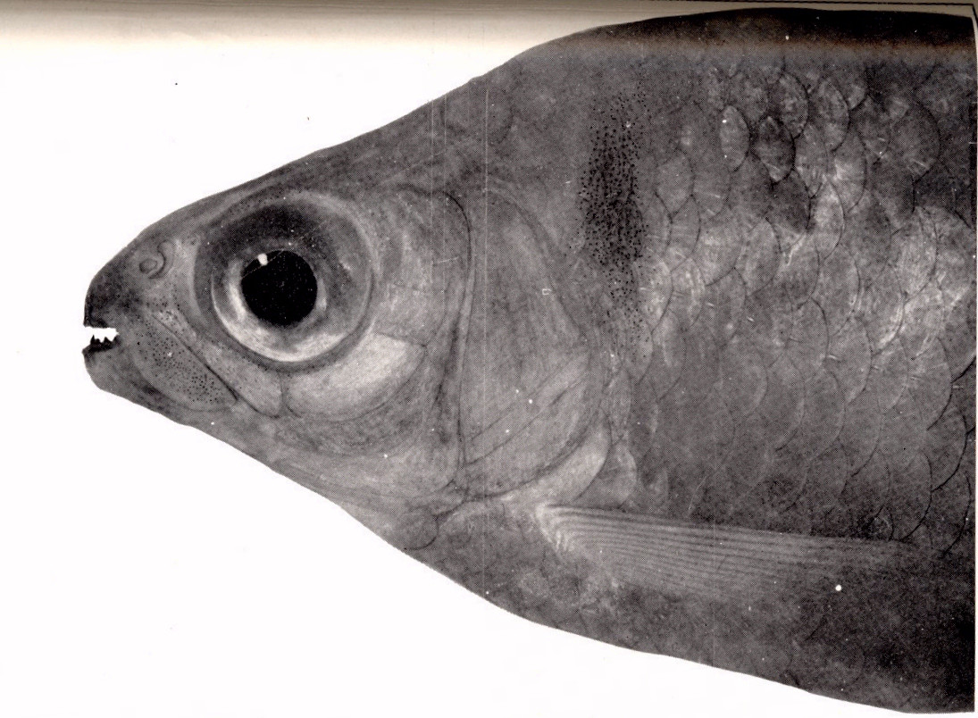 Astyanax gymnogenys Eisenmann (Type) Subject: Astyanax Tag: Fish